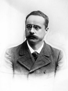 Portrait of French writer Adolphe Retté (1863-1930).